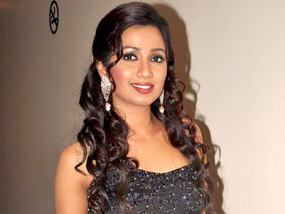 Shreya Ghoshal at Katrina, Imran and Ali Zafar on the sets of 'X Factor India'